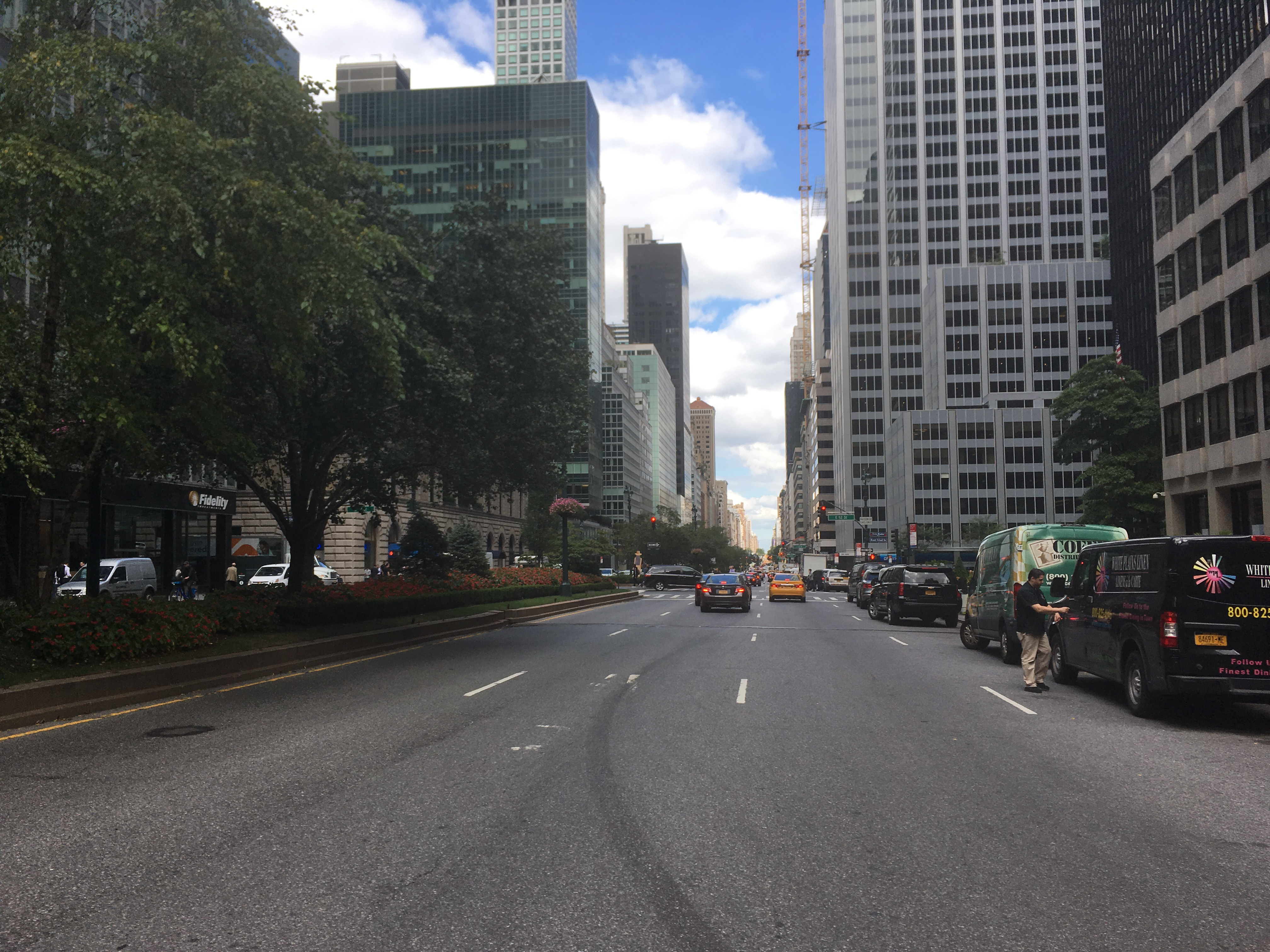 Northbound Park Avenue past the intersection with 51st Street in Manhattan, New York City